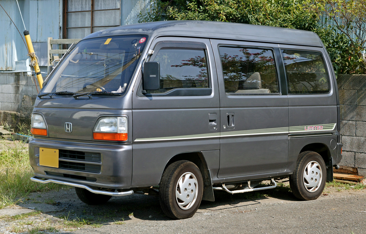 Second generation Honda Acty Street